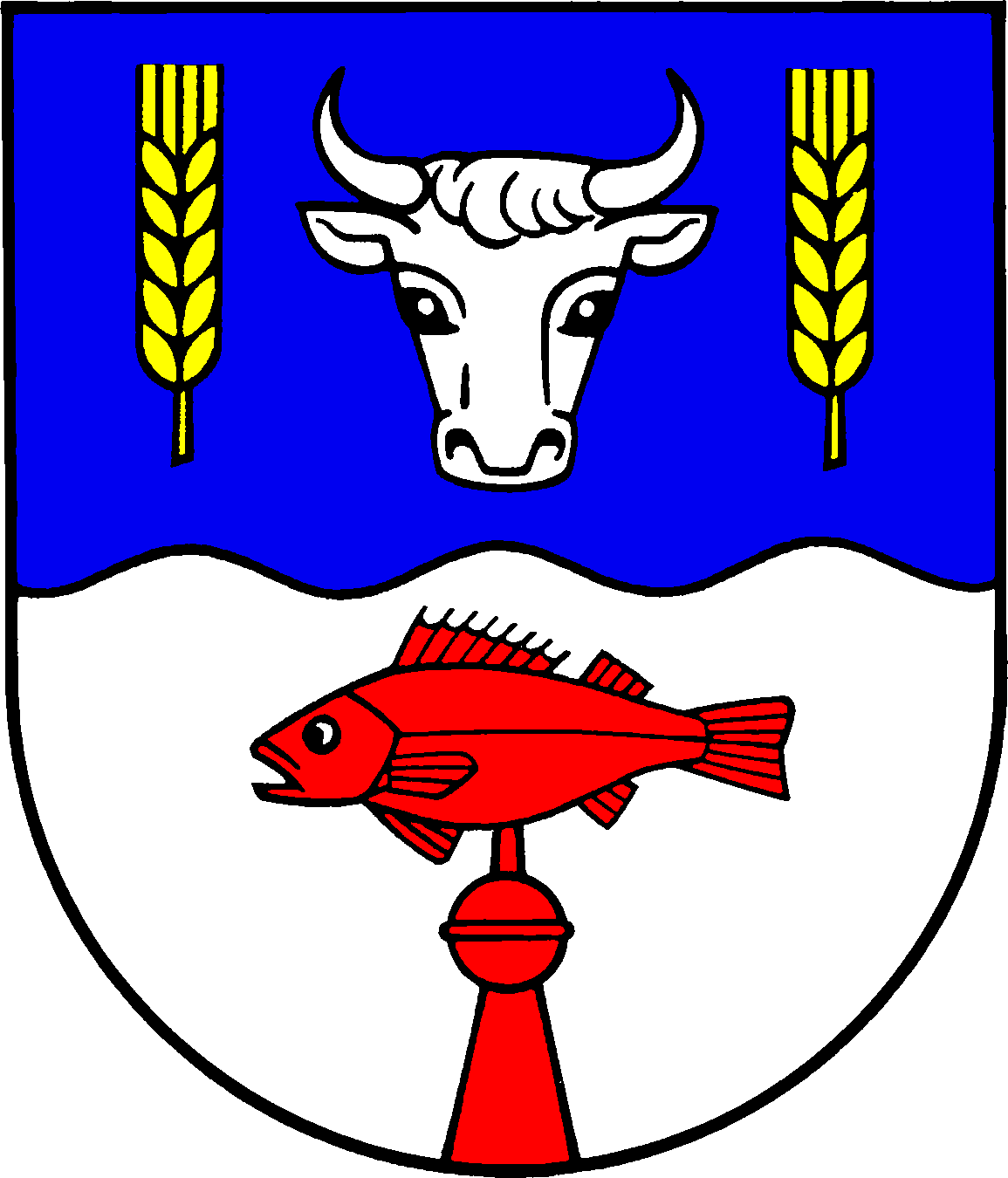 Coat of arms of the municipality Schönberg (Holstein) in Schleswig-Holstein, Germany.